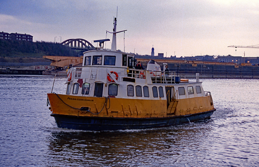 Shields Ferry Freda Cunningham crossing the River Tyne in 1993. Scanned from a Fujichrome 35mm slide. Other names: Anya Dev, Lady Laura, Mystic Waters